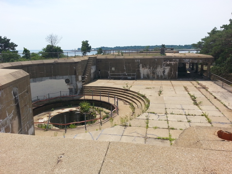 Emplacement for 12-inch M1895 gun on disappearing carriage M1897, Battery Hunter, Fort Stark, New Hampshire